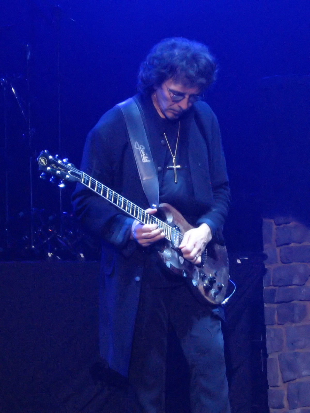 Tony Iommi from Heaven and Hell during concert in Katowice Spodek 20.06.2007